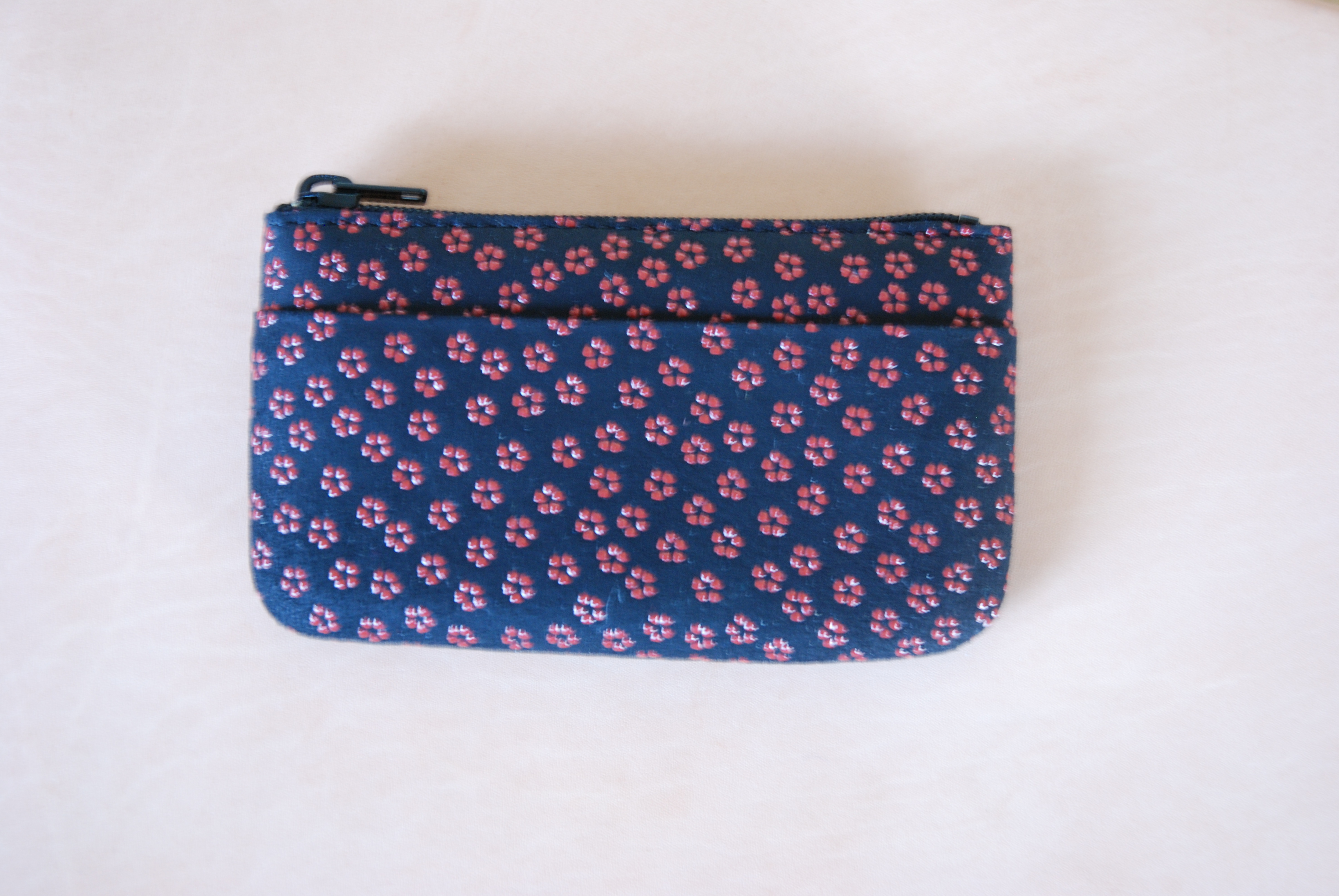 Accessory of laquered buckskin in Japenese inden technique with traditional pattern